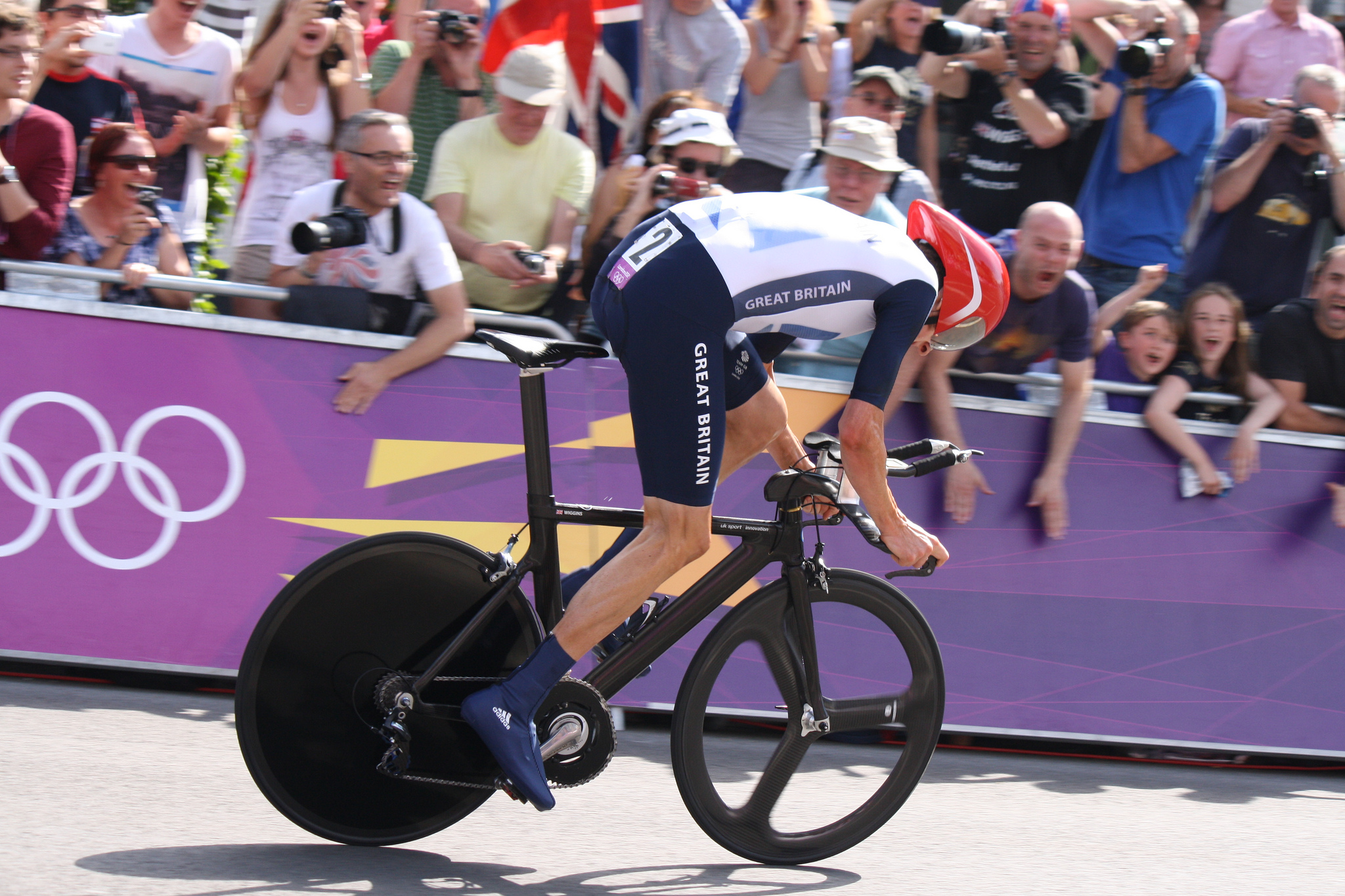 Bradley Wiggins